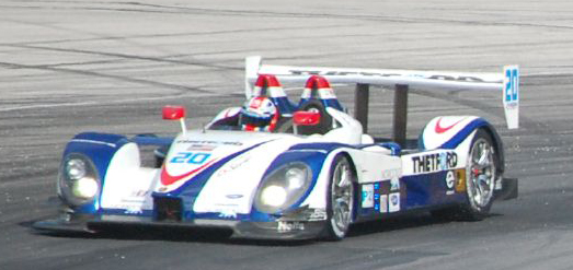 Dyson Racing's Porsche RS Spyder at the 2007 Generac 500